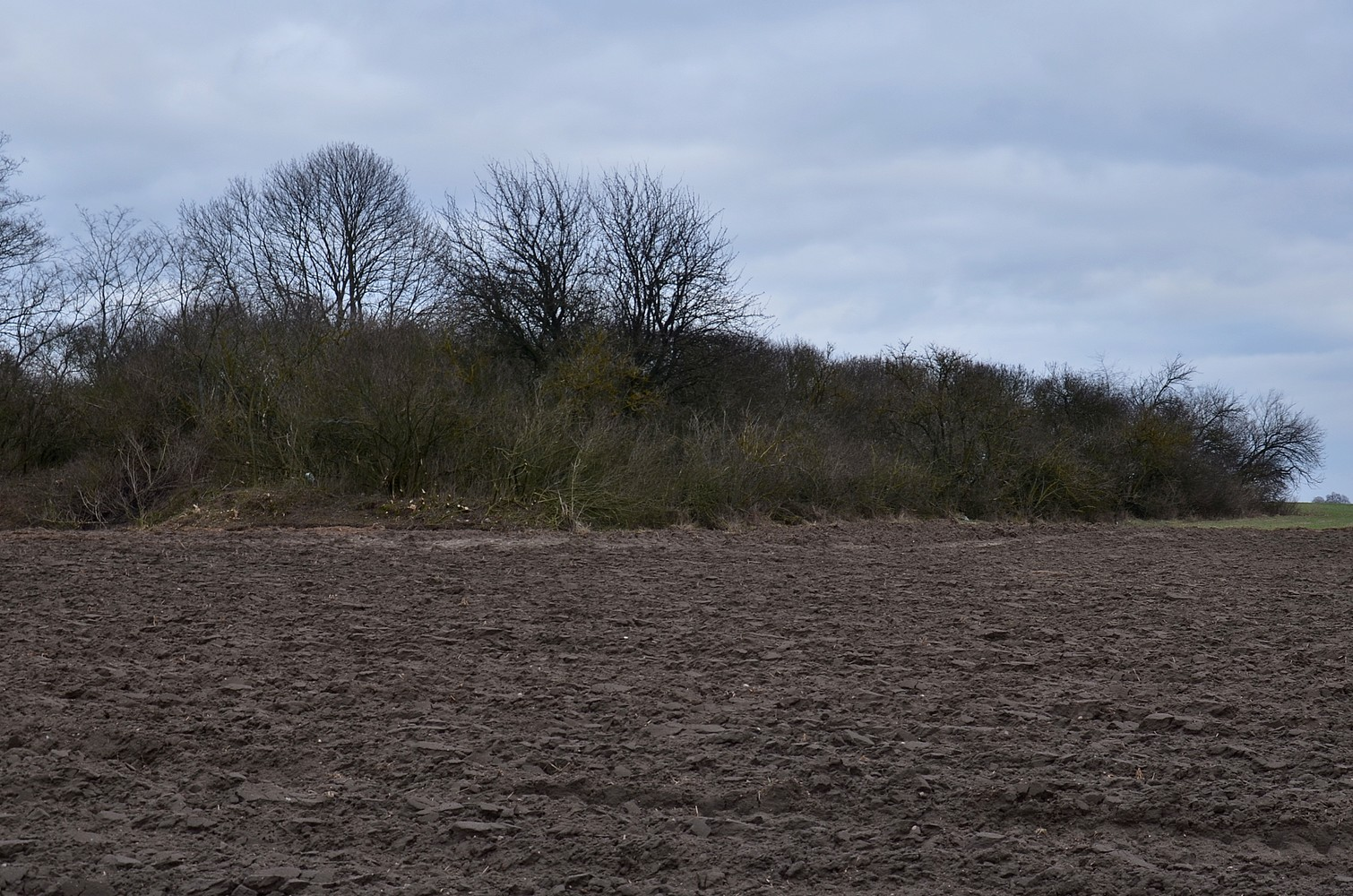 Kierz Półwieski, deserted evangelic cemetery